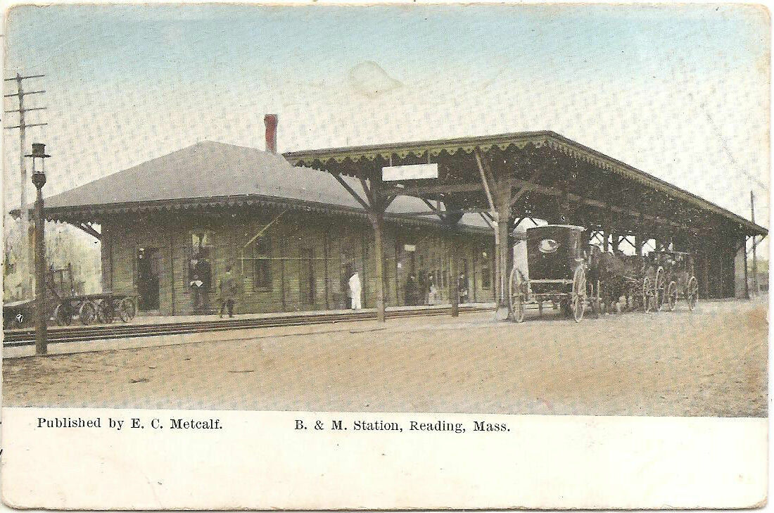 Early undivided back postcard of Reading station